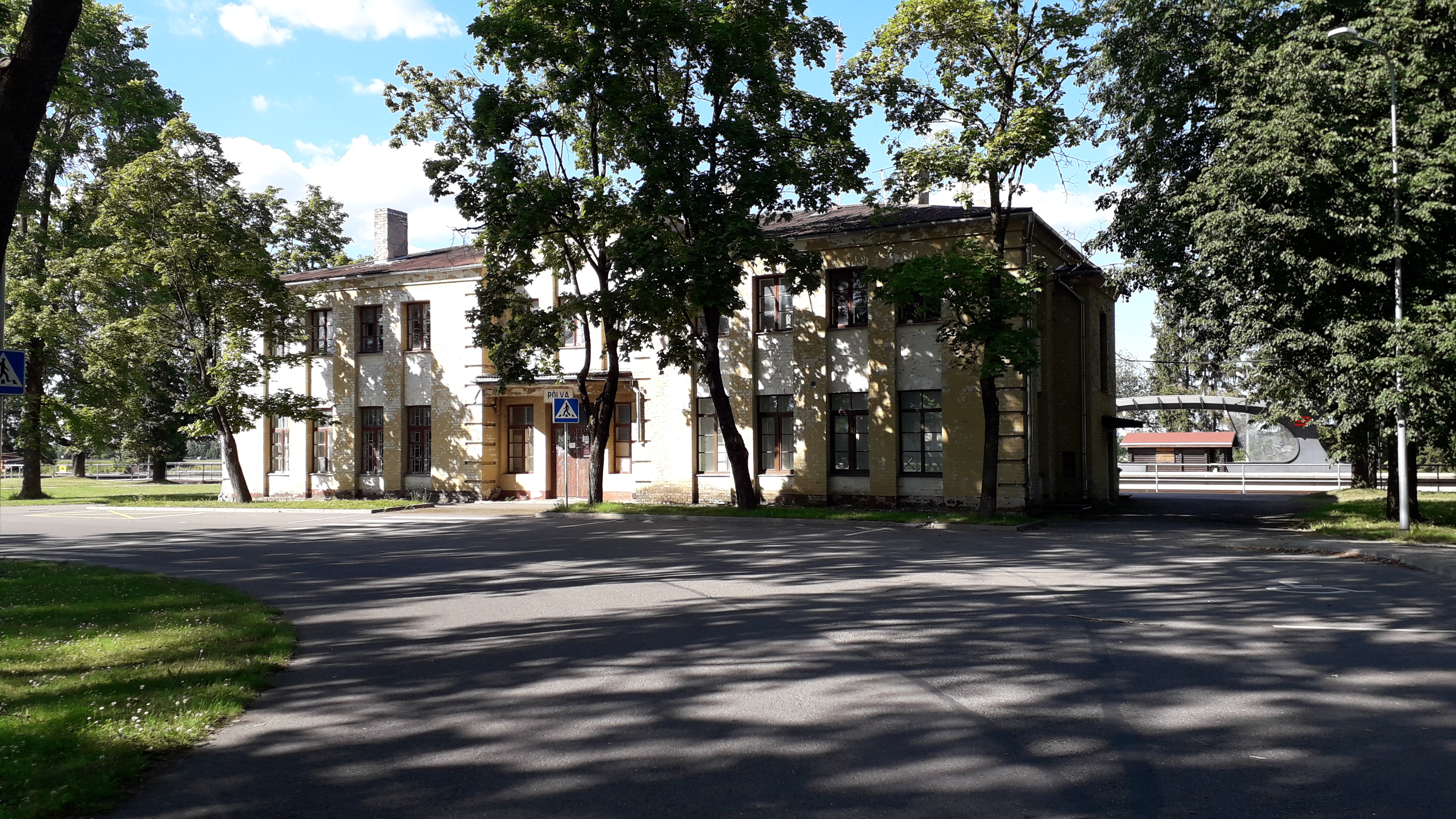 Põlva railway station